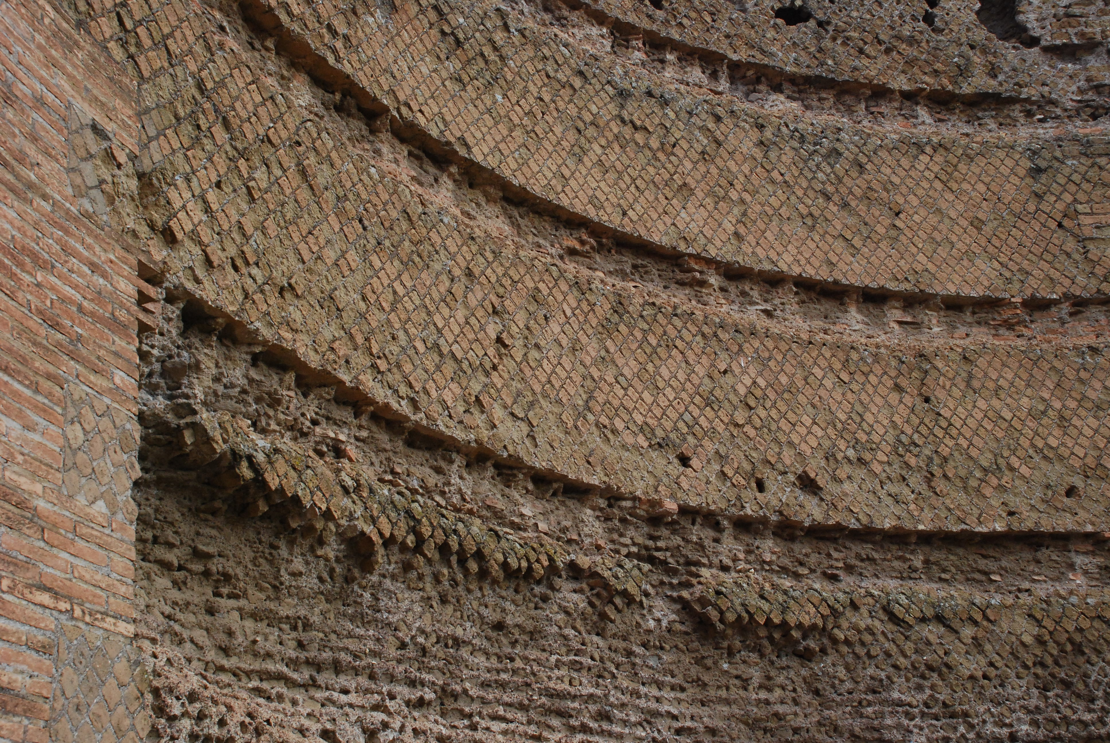 Villa Adriana, residence of Emperor Hadrian near Tivoli, the most extensive ancient roman villa, covering an area of at least 80 hectares.